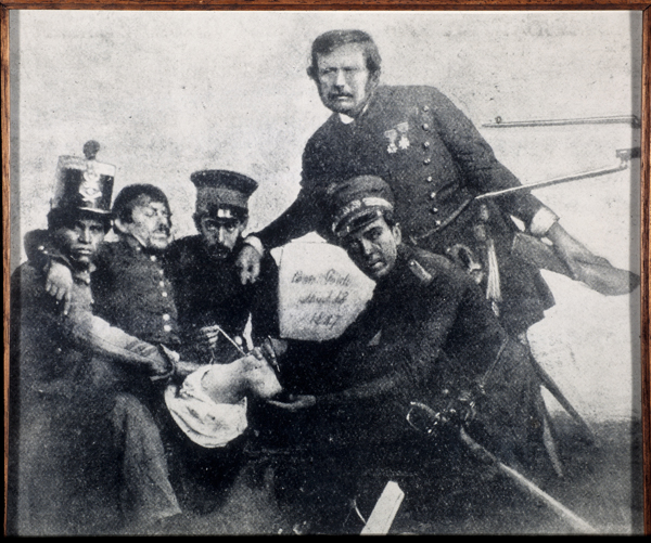 Ref.: PMa_B_451_Brussel; Foto van de Belgische arts Pedro van der Linden; photo: Paul M.R.Maeyaert; Legermuseum; Brussel; Belgium; Europe|Belgium|Brussel; Europe|Belgium|Bruxelles; ; © Paul M.R. Maeyaert